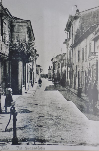 Jolo, via Andrea Guazzalotri